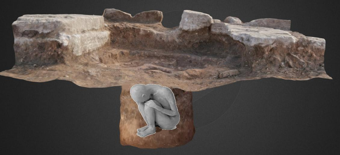 monte prama grave